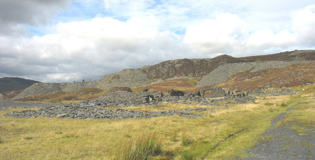 Mill complex ruins at Lefel Dwr Oer with Diffwys-Casson Quarry in the background. Diffwys-Casson dates back to 1760 and is the oldest quarry in the Blaenau area. It was started by Methusalem Jones a quarryman of Nantlle in Caernarfonshire who was directed in a dream to go and dig for slate at this spot and finished up making a fortune. 565910